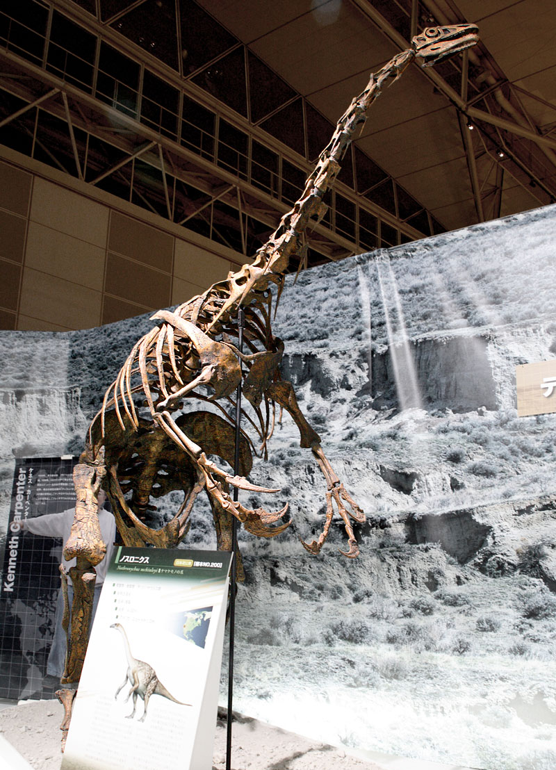 Nothronychus mckinleyi